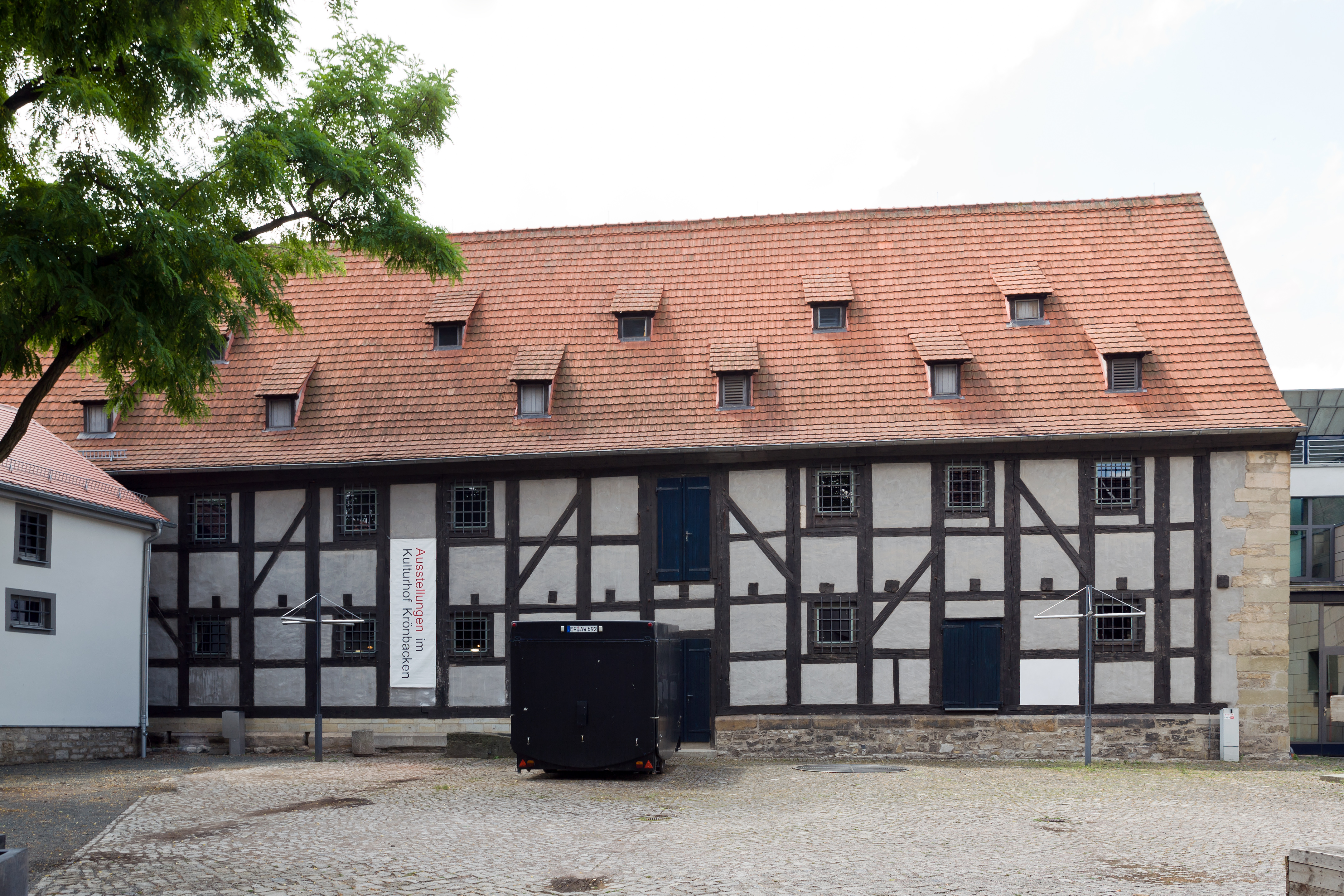 Erfurt: Haus zum Güldenen Krönbacken (House to the Güldener Krönbacken), dyer's woad magazine of the courtyard as seen from the northeast